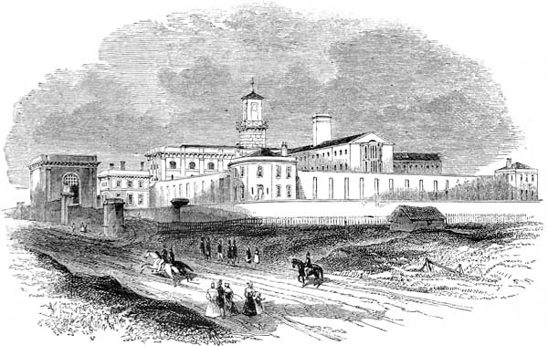 Pentonville Prison as shown in the The Illustrated London News in 1842.